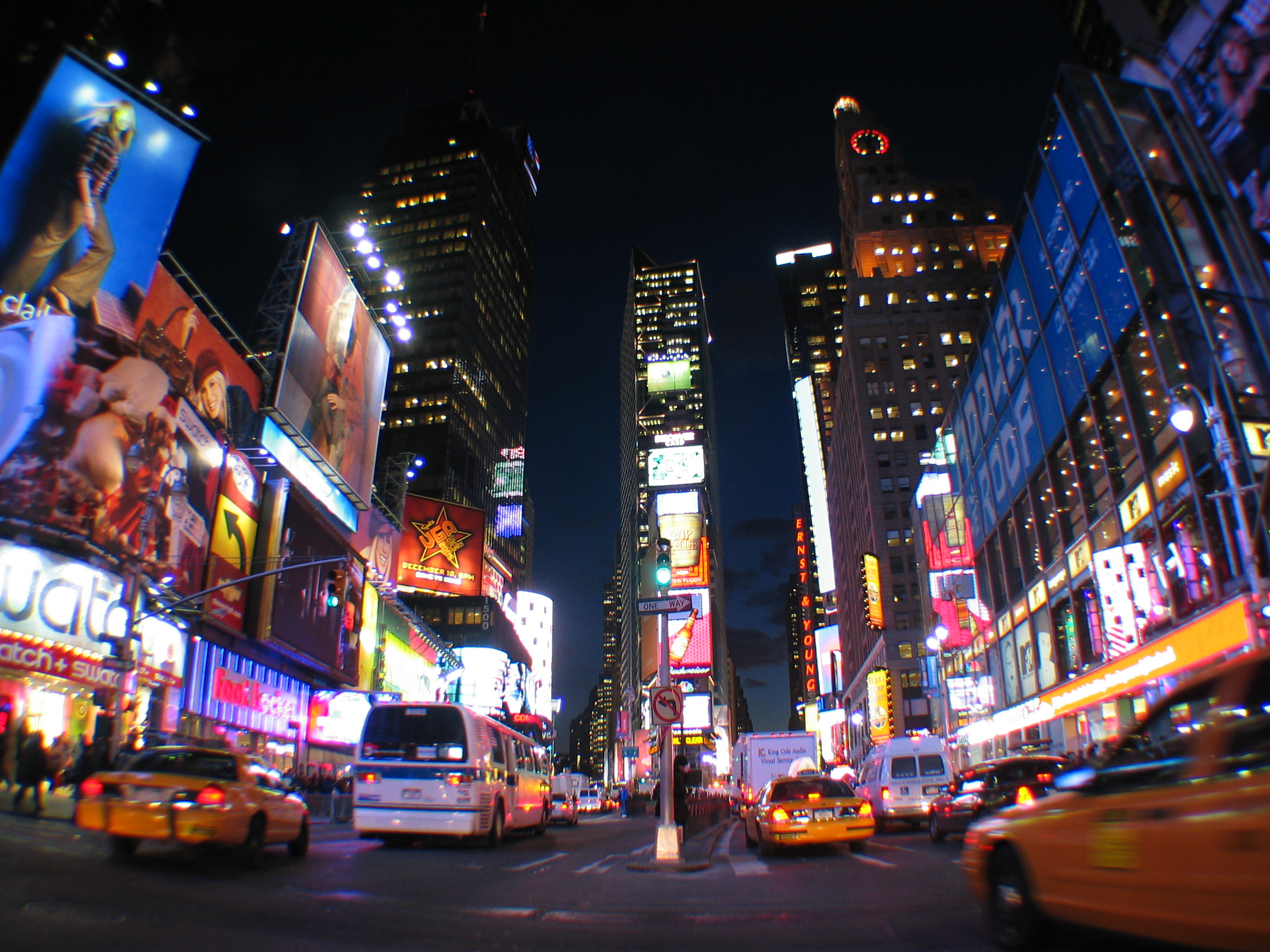 Times Square, New York City, USA. Wide angle shot. Caution: This has severe sharpness issues in the corners.